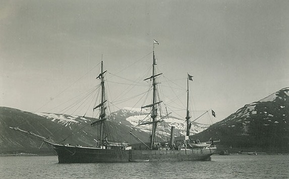 The Antarctic was a steamship built in Drammen, Norway in 1871. She was used on several research expeditions to the Arctic region and to Antarctica through 1898-1903. In 1895 the first confirmed landing on the mainland of Antarctica was made from this ship.